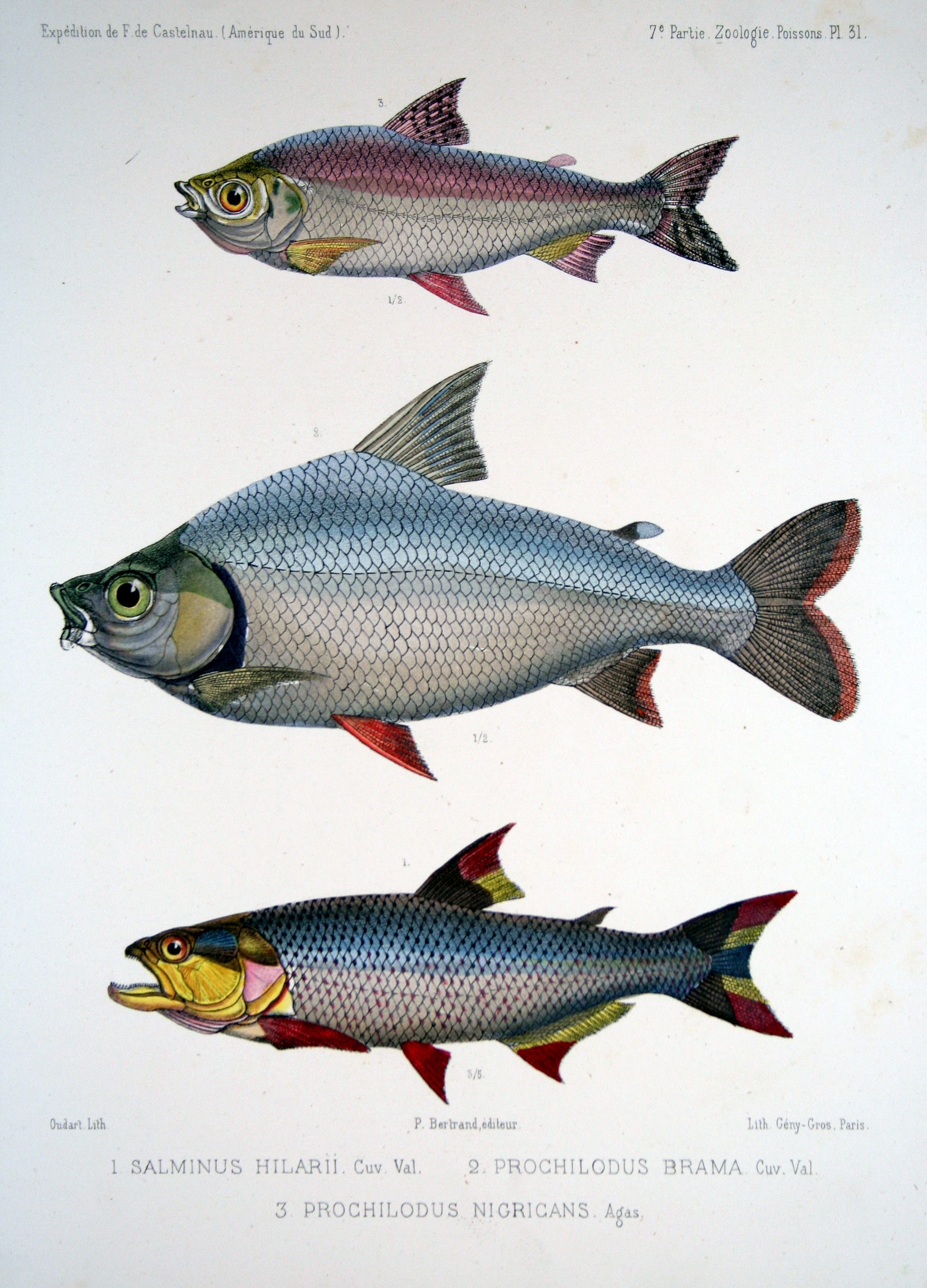 From top to bottom: Prochilodus nigricans Agas. = Prochilodus nigricans Spix & Agassiz, 1829 Prochilodus brama Cuv. Val. = Semaprochilodus brama (Valenciennes, 1850) Salminus hilarii Cuv. Val. = Salminus hilarii Valenciennes, 1850